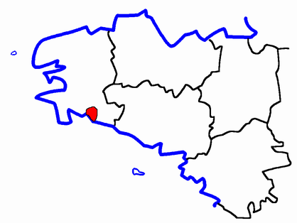 Description: Map for localisazion of cantons of Bretagne region in France Source: made by Hervé Tigier in april 2005 from another large map (published in 1990)